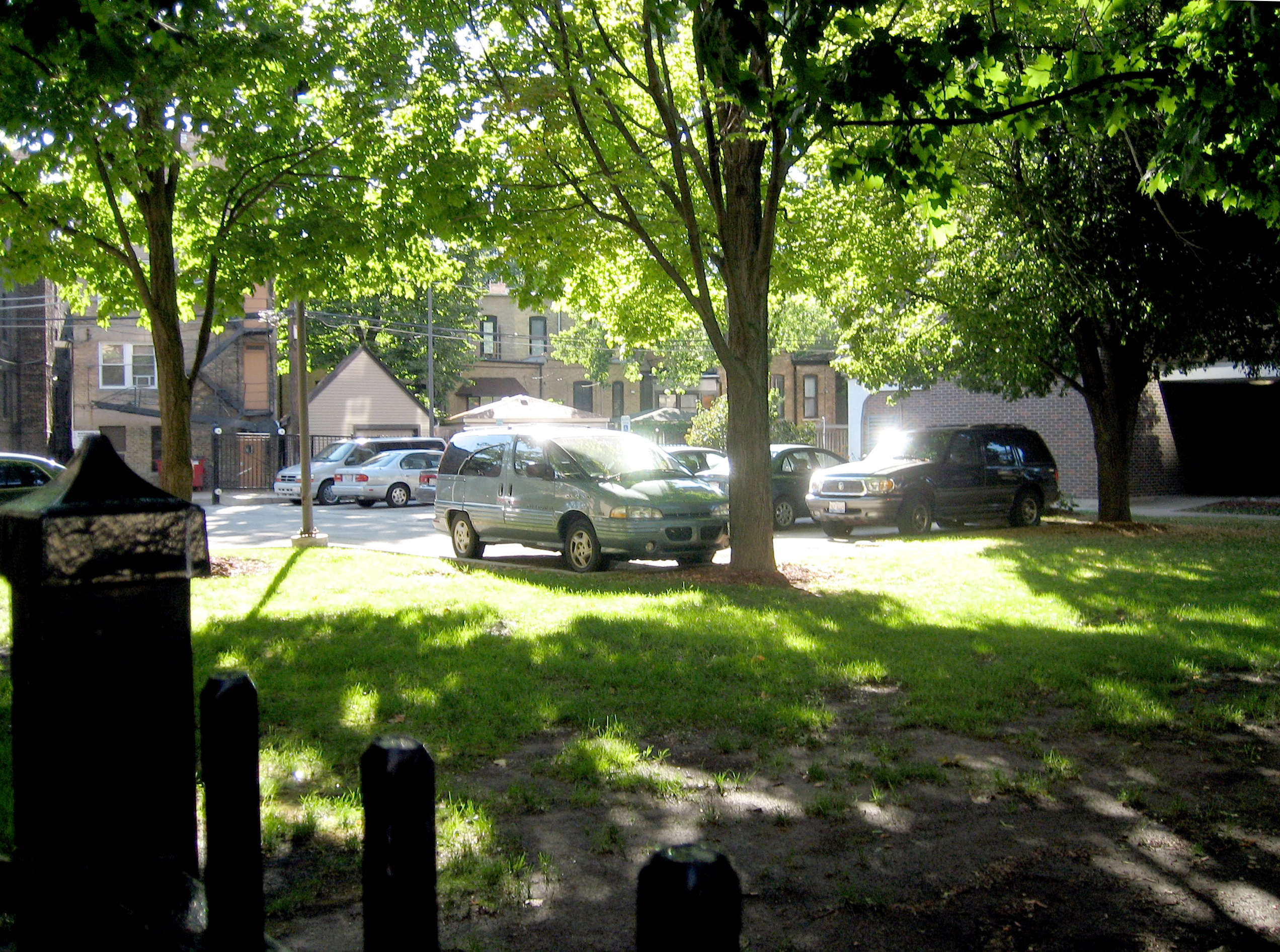 2122 N Clark Street, the site of the St. Valentine's Day Massacre. Now a parking lot for a nursing home.